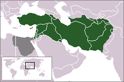 Image of Achaemenid empire at start of Artaxerxes III(green) and his conquests and rebellions(dark grey). Territories in light grey were not a part of the Persian Empire.